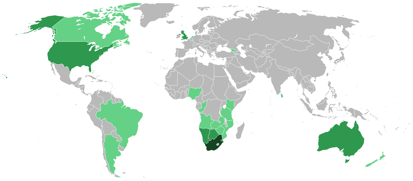 Distribution of the South African Afrikaner ethnic group in Africa and the world.